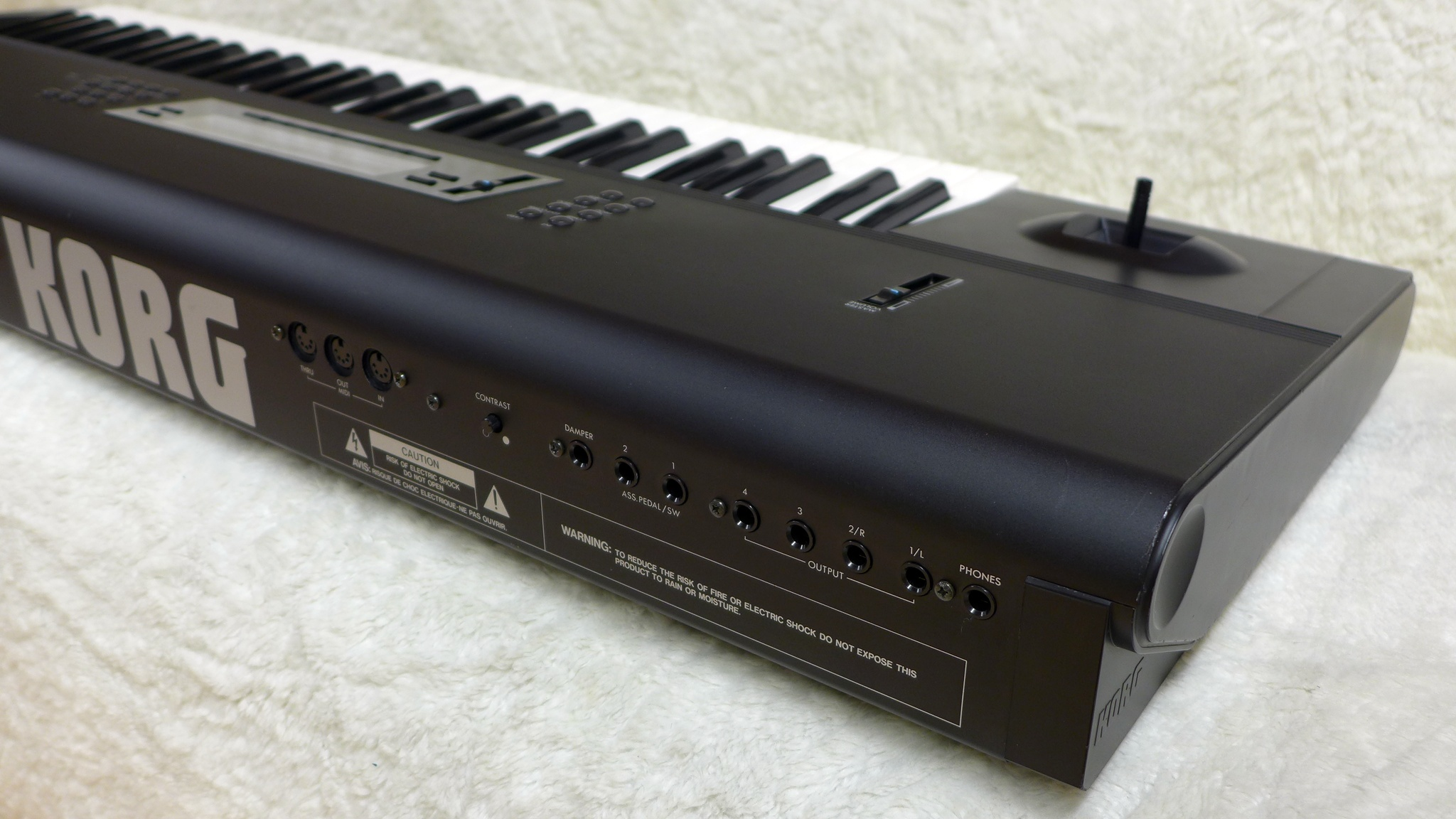 Backside connectors